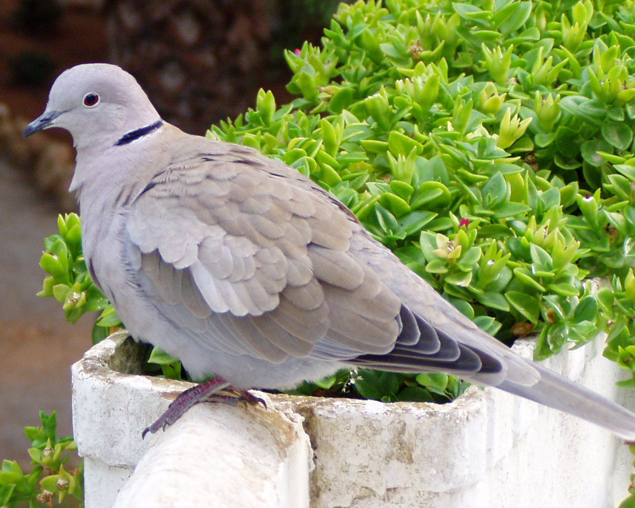 Collared Dove; Photograph taken on Balearic Islands, Spain.